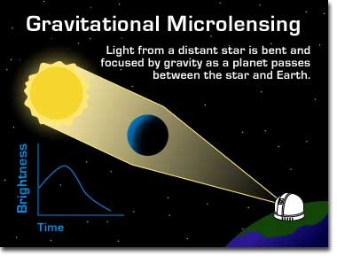 From This is a NASA image Licensing This image was uploaded in the JPEG format even though it consists of non-photographic data. This information could be stored more efficiently or accurately in the PNG format or SVG format. If possible, please upload a PNG or SVG version of this image without compression artifacts, derived from a non-JPEG source (or with existing artifacts removed). After doing so, please tag the JPEG version with Superseded|NewImage.ext , and remove this tag. This tag should not be applied to photographs or scans. For more information, see BadJPEG . Category:Gravitational lensing